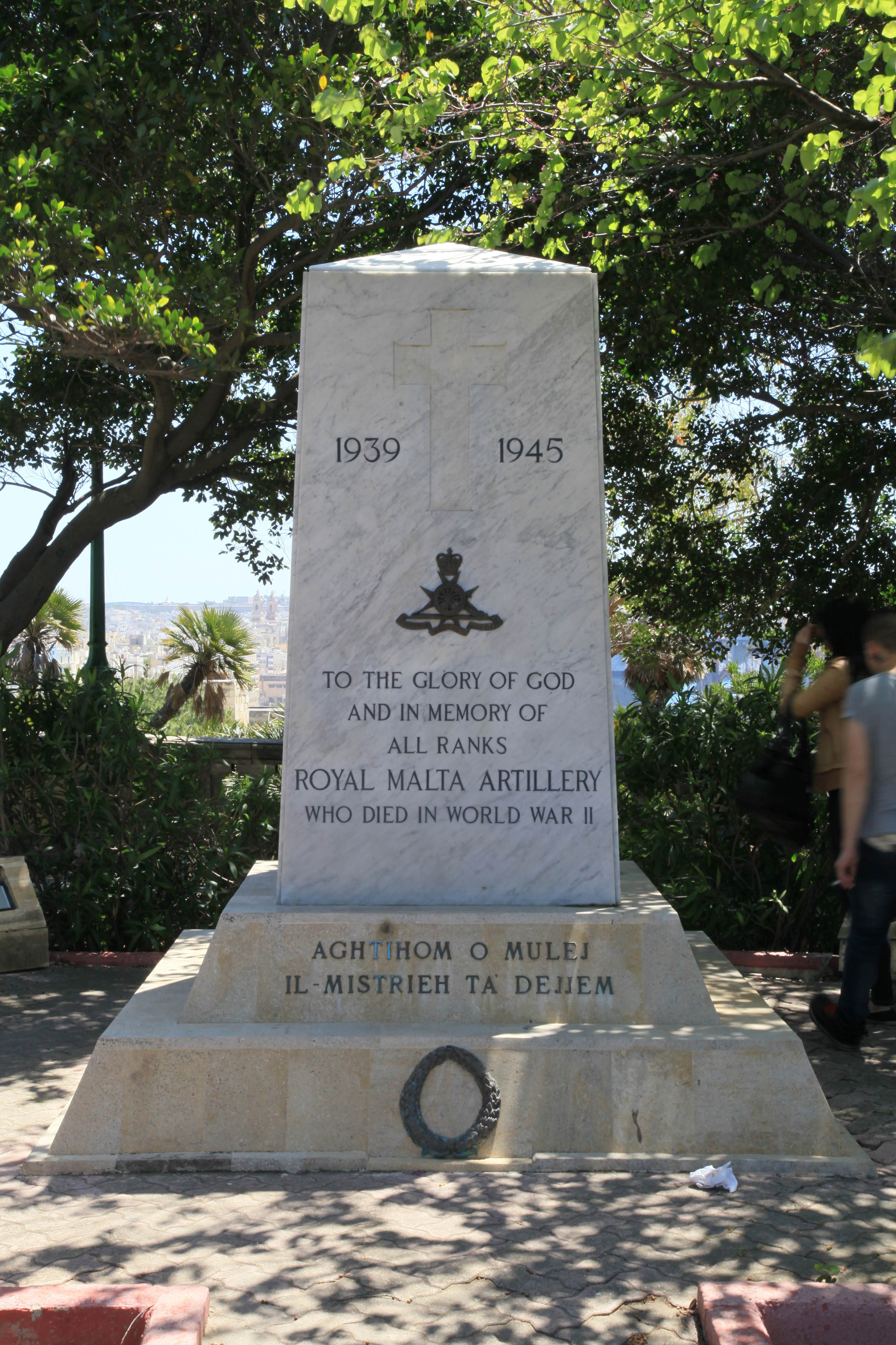 RMA Memorial at Triq Sant' Anna in Floriana, Malta